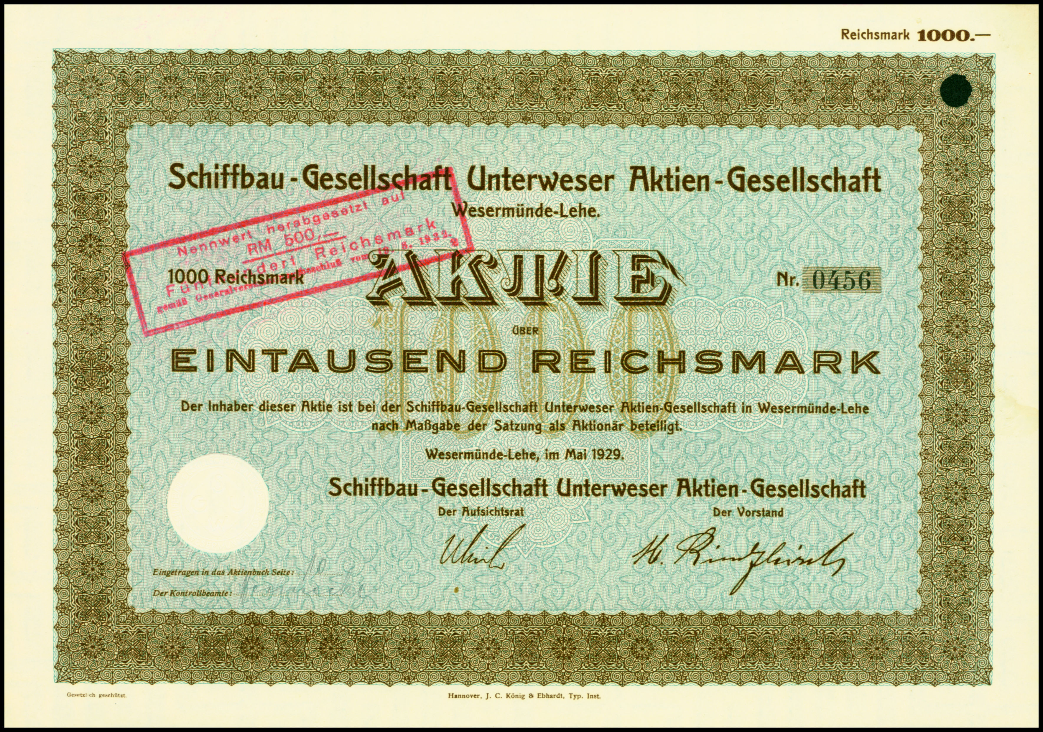 Share of the Schiffbau-Gesellschaft Unterweser AG, issued May 1929